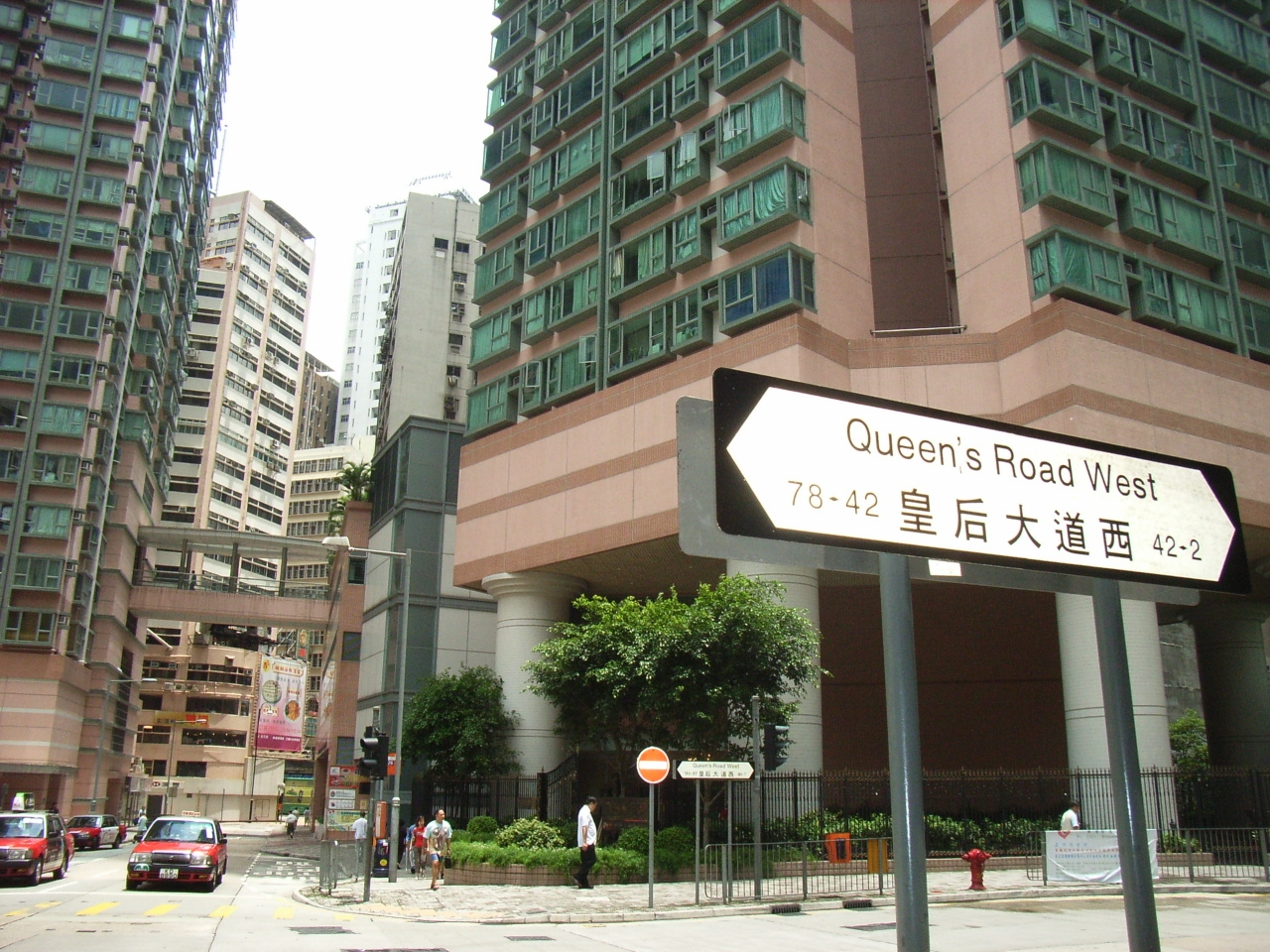 The Queen Street, near the 78 Queen's Road West, Hong Kong By KennethTom